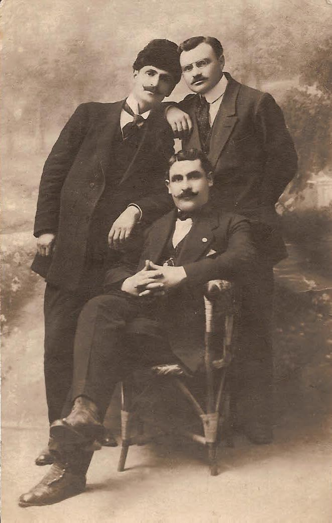 This picture is Amirian with his friends.